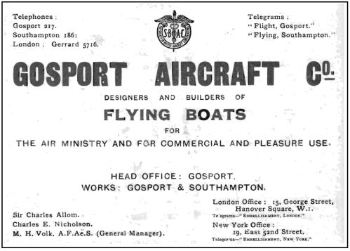 Scan of a Gosport Aircraft Company advertisement